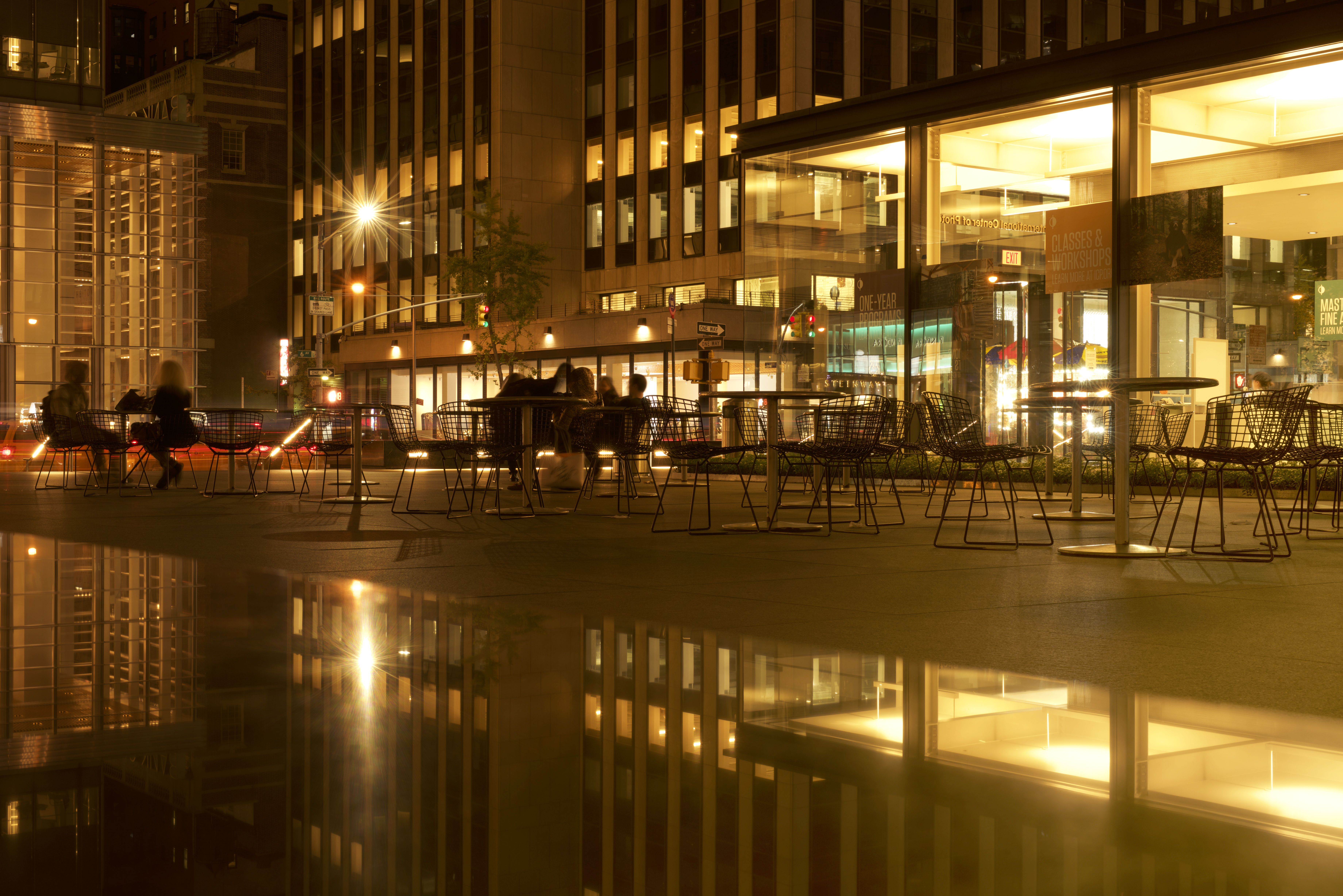 Long exposure of the International Center for Photography. Long exposures are good because they enable the photographer to shoot in low light at a low ISO to reduce grain. The disadvantage of a long exposure (to some) is that they require a tripod and cause movement to become blurry.